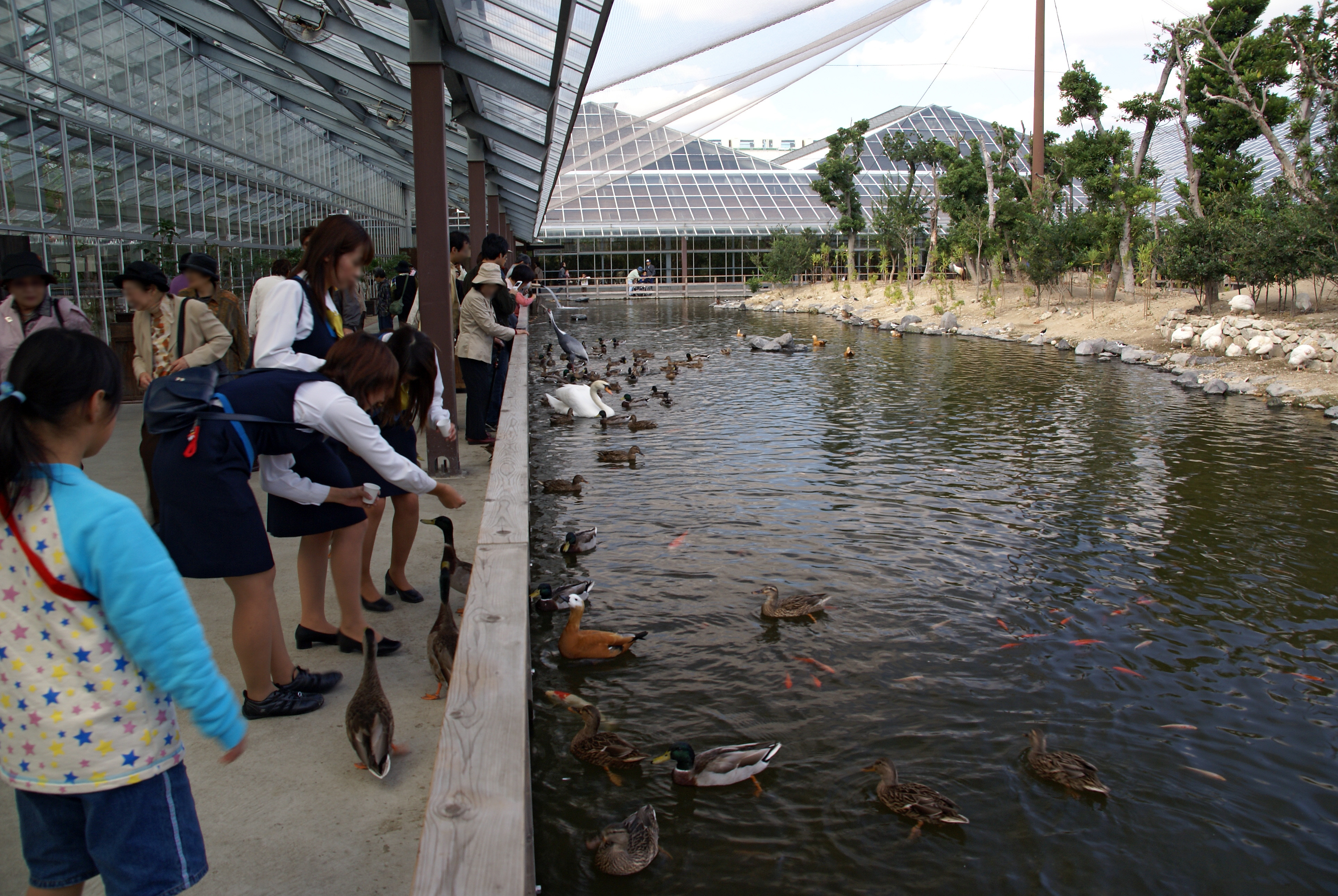 Kobe Kachoen (Kobe Flowers and Birds Garden) in Kobe, Hyogo prefecture, Japan